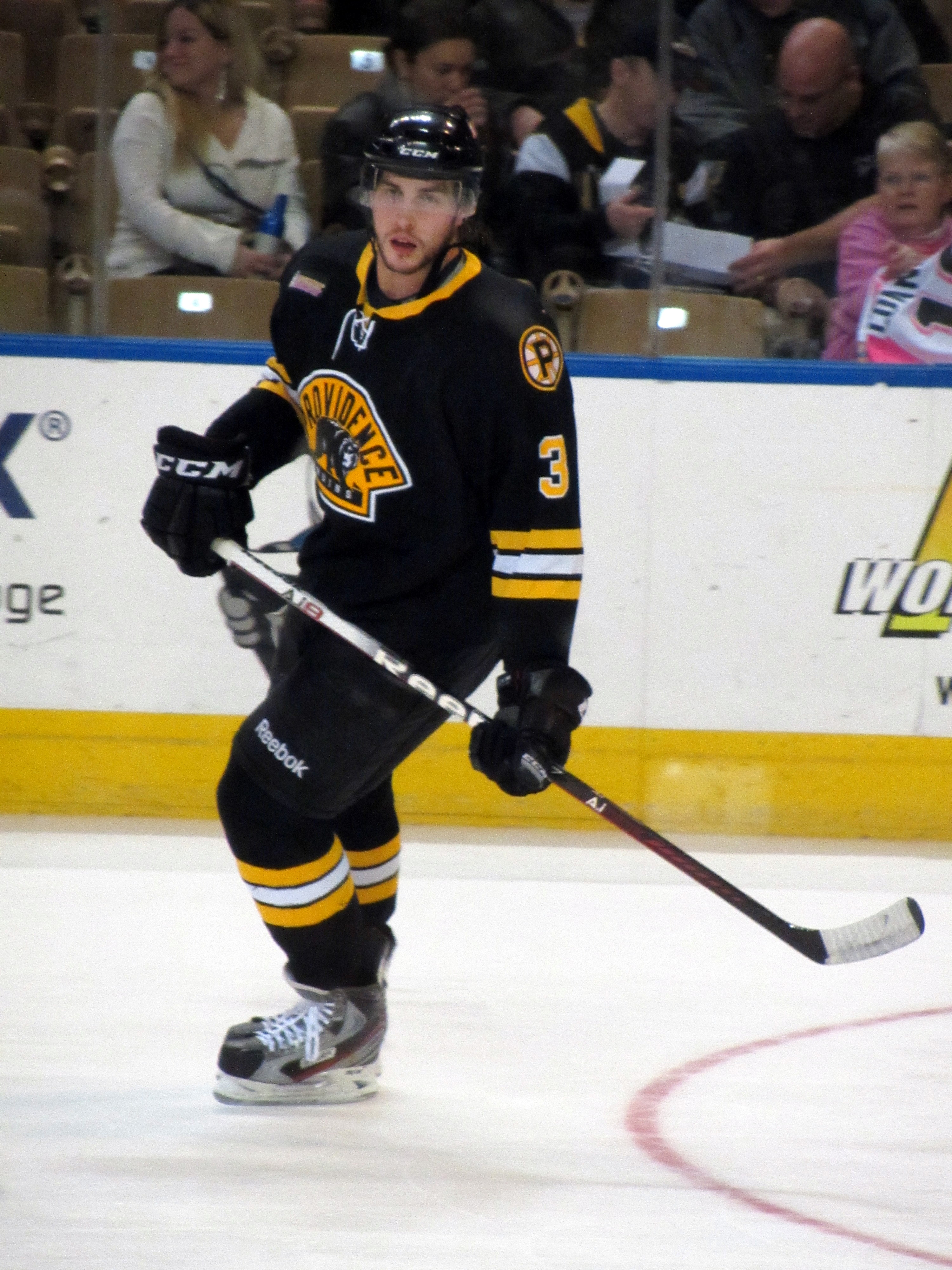 Matt Bartkowski of the Providence Bruins jersey.